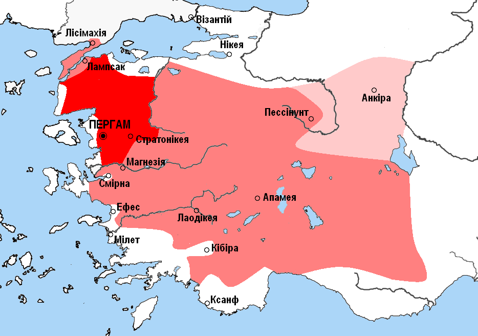 Map of Pergamon Kingdom (ukrainian)